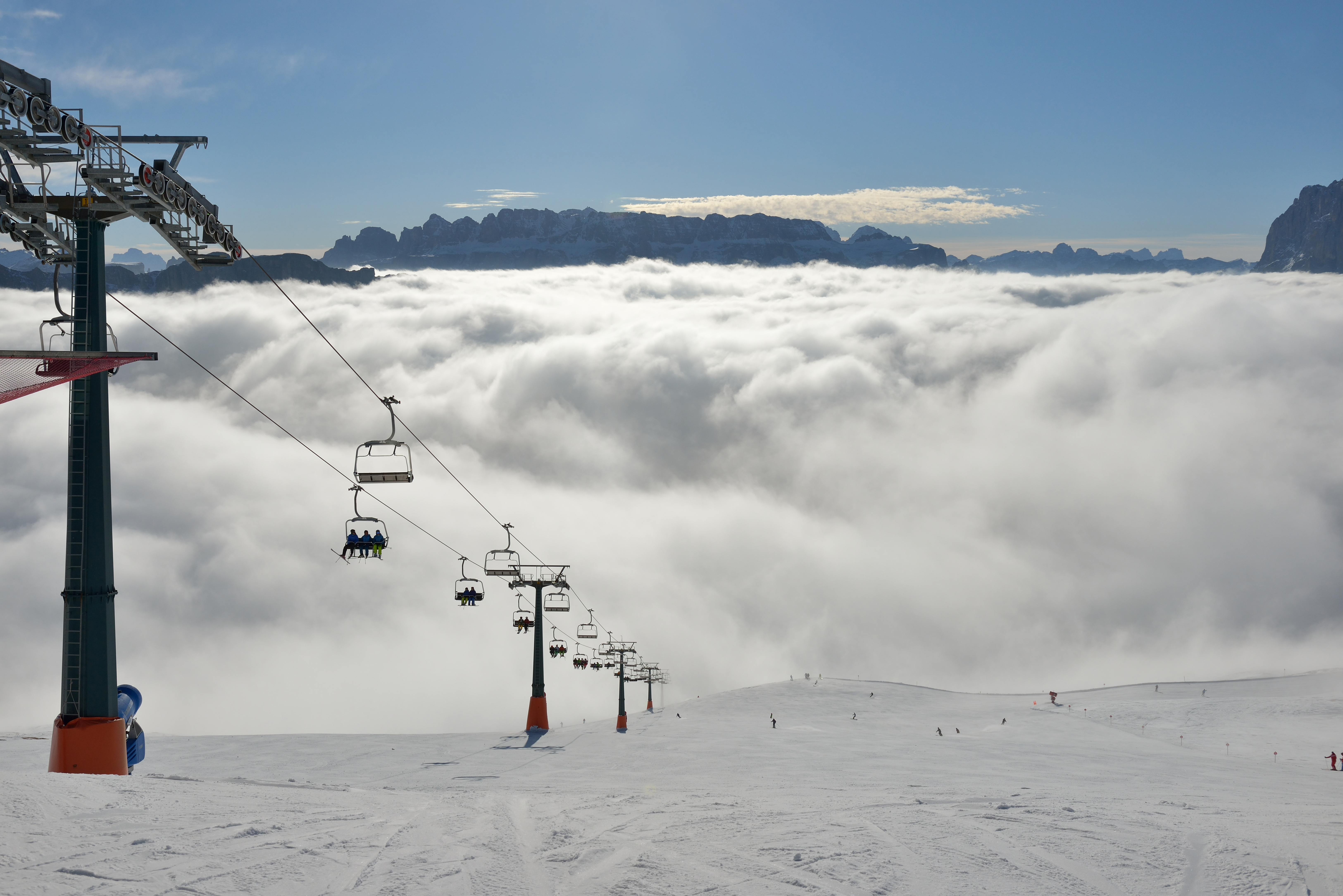 Chairlift and skiing on the mount Secëda in Val Gardena.